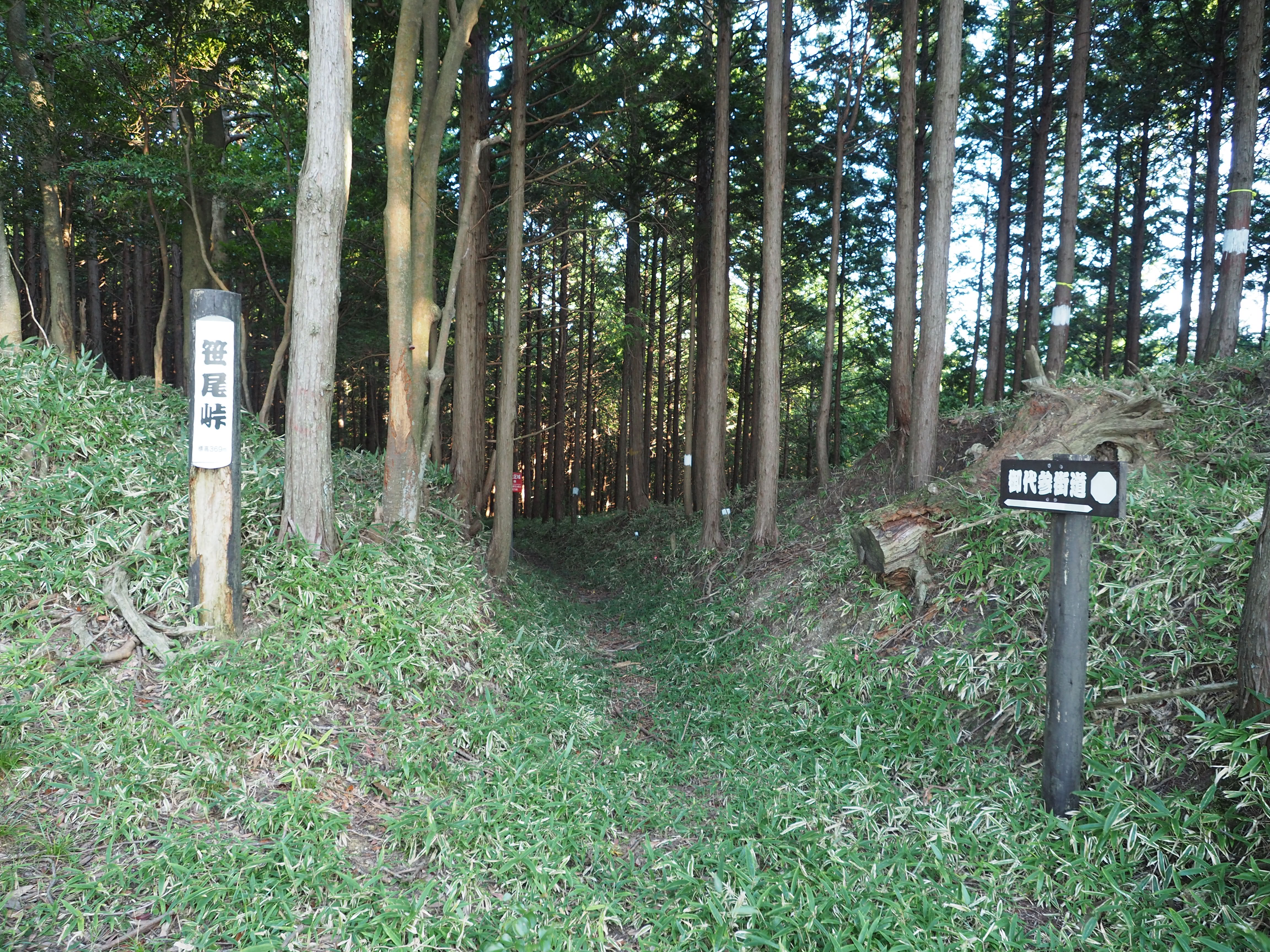 Sasao Pass between Hino and Tsuchiyama, Shiga, Japan